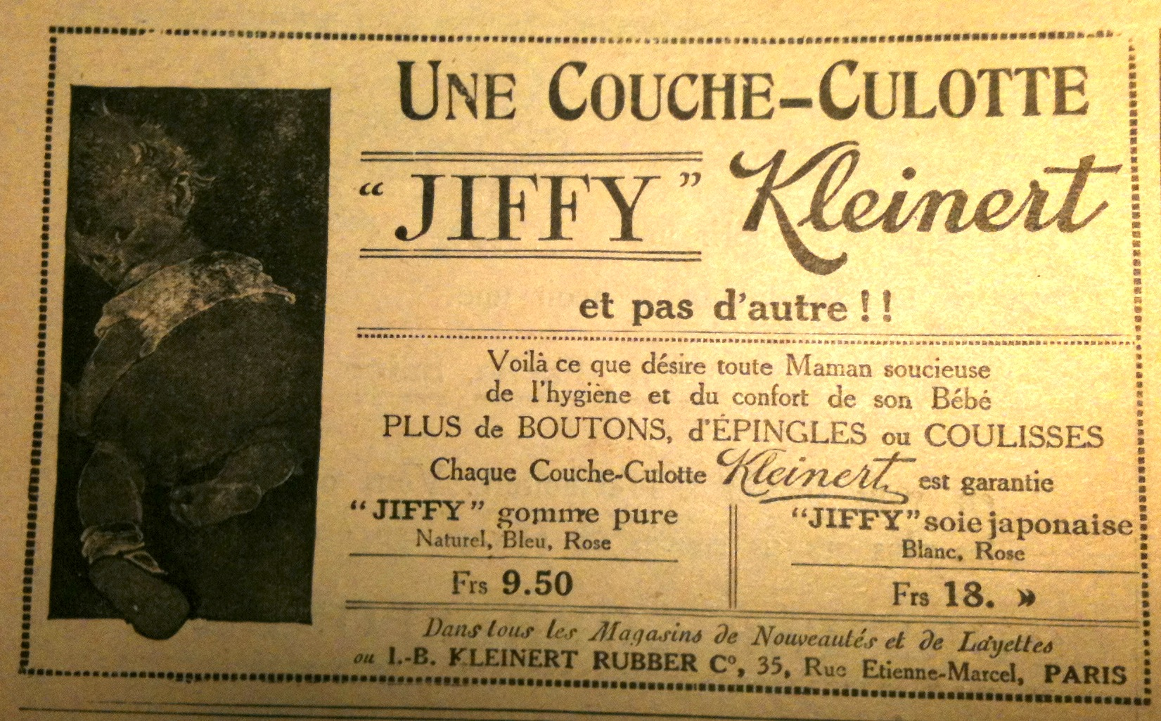 Advertising for Diaper Jiffy Kleinert (published in a French Magazine).